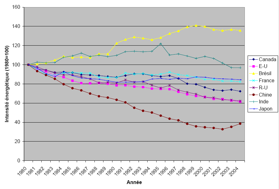 Comparison of energy intensities for a few countries, 1980-2004. GDP measured using year 2000 $, PPP